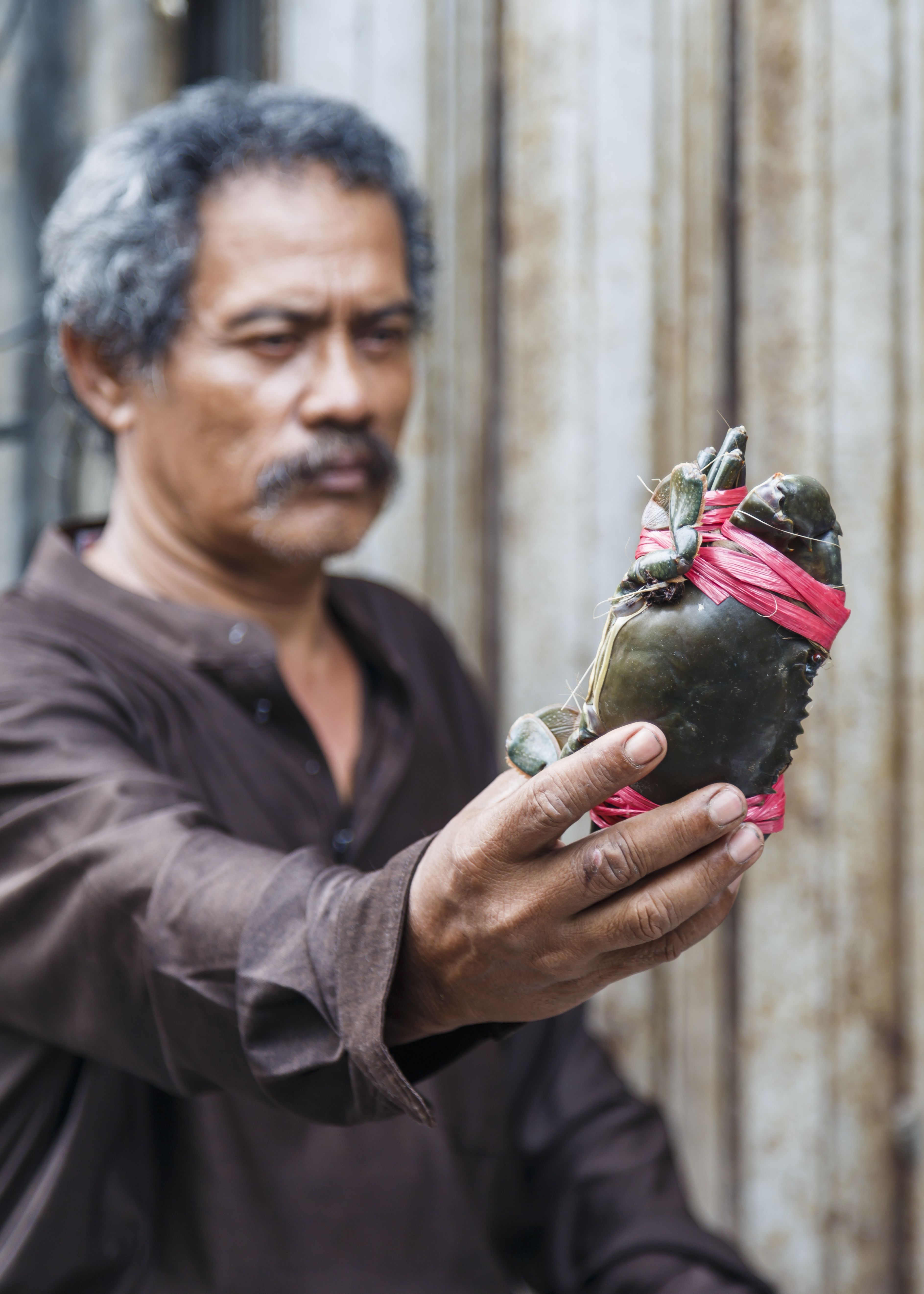 Jakarta, Indonesia: A man selling crabs in Chinatown Jakarta, Glodok quarter.